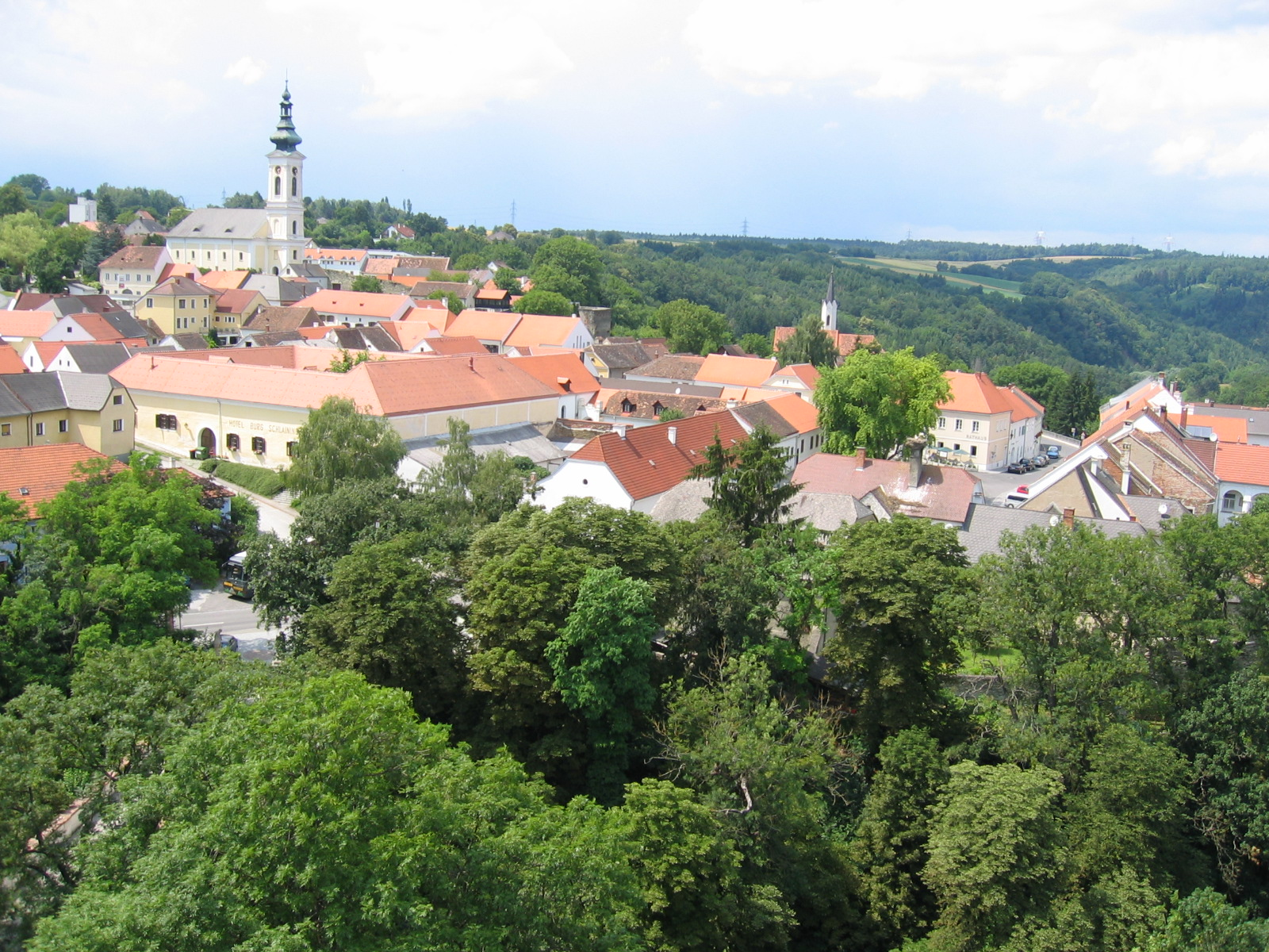 View on Stadtschlaining from Schlaining castle